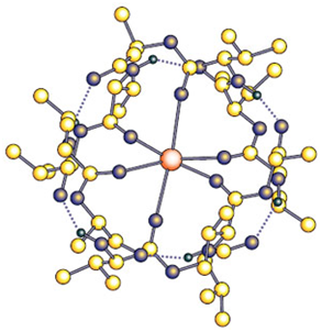 Վալինոմիցին